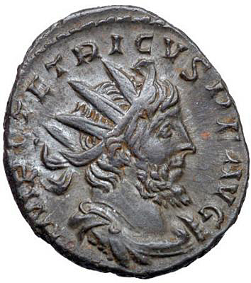 Coin of Tetricus I, last ruler of the Gallic Empire